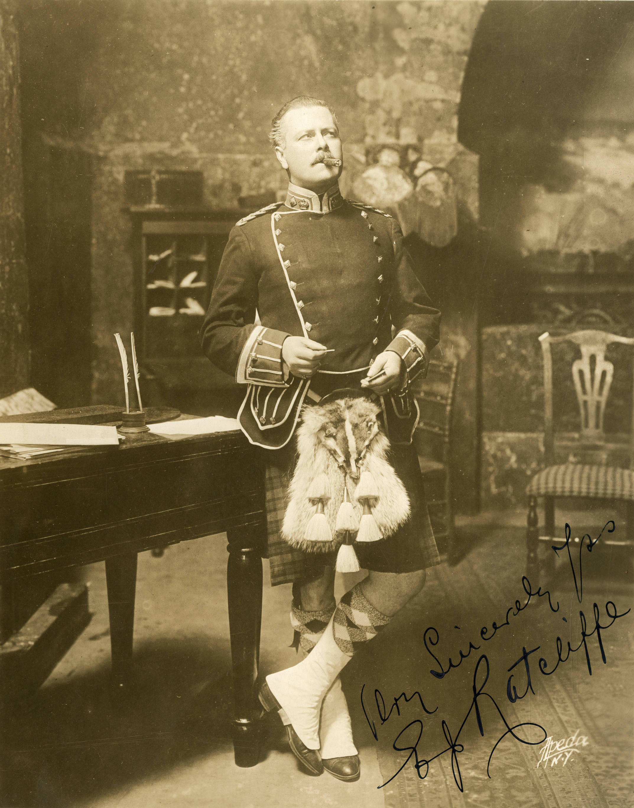 E. J. Ratcliffe, stage actor Subjects: actors